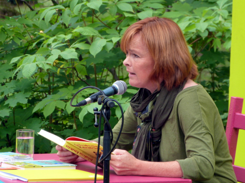 German writer Kirsten John reading at the Erlanger Poetenfest 2013.